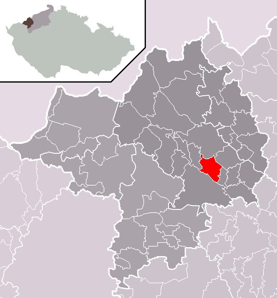 Location of Droužkovice municipality within Chomutov District and administrative area of Chomutov as a Municipality with Extended Competence.